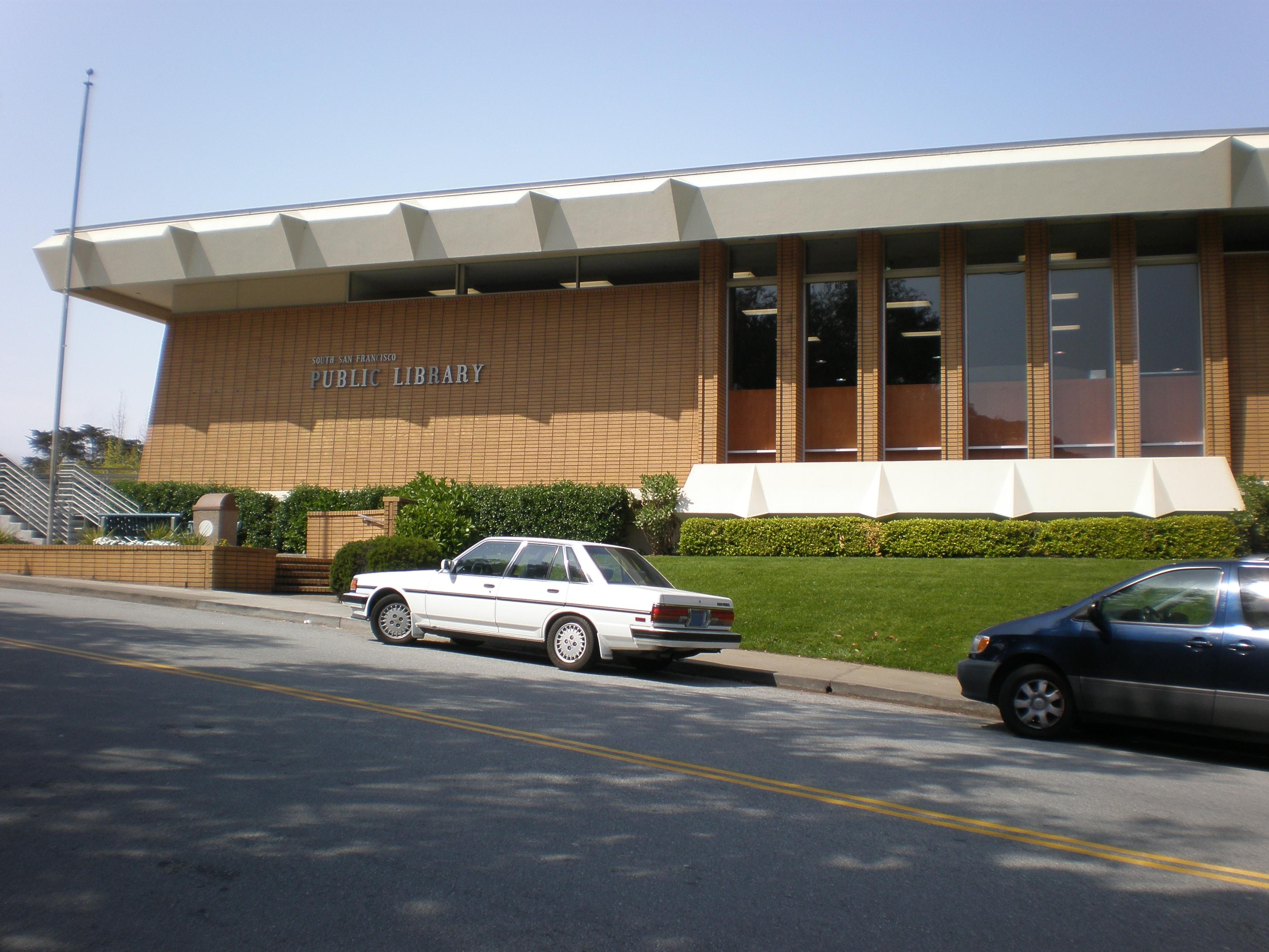 The South San Francisco West Orange Public Library as seen from West Orange Avenue.